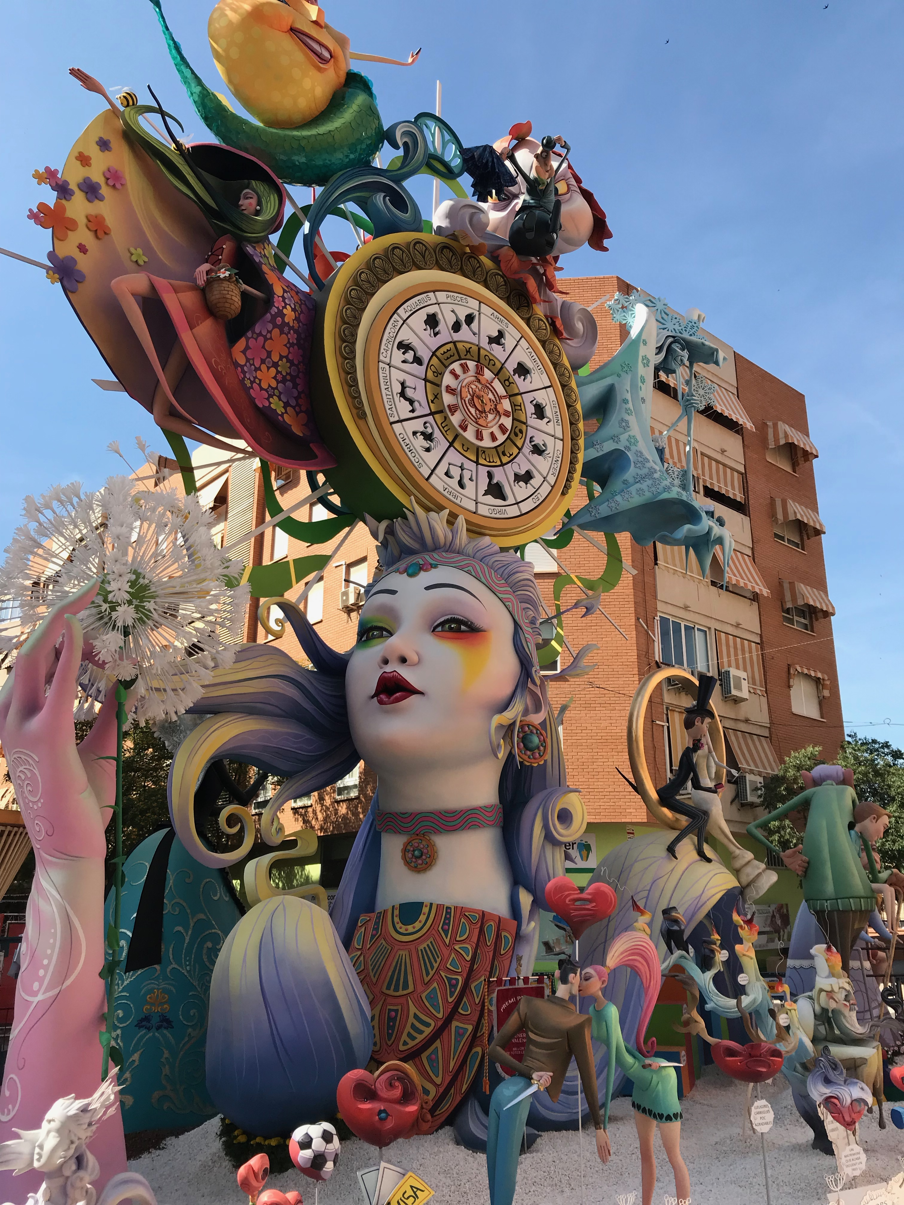 Best 'Hoguera' chosen by the jury in 2019